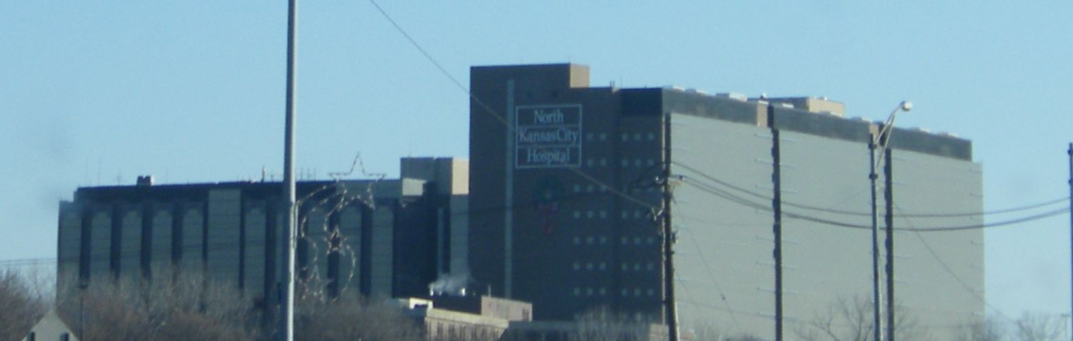 North Kansas City Hospital in North Kansas City, Missouri